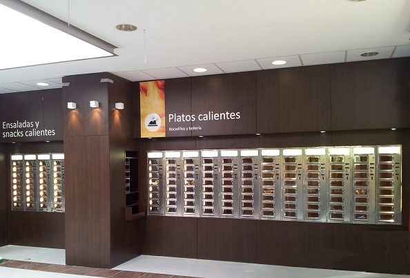 Automatic restaurant with automats in University Jaume I of Castellón in Spain